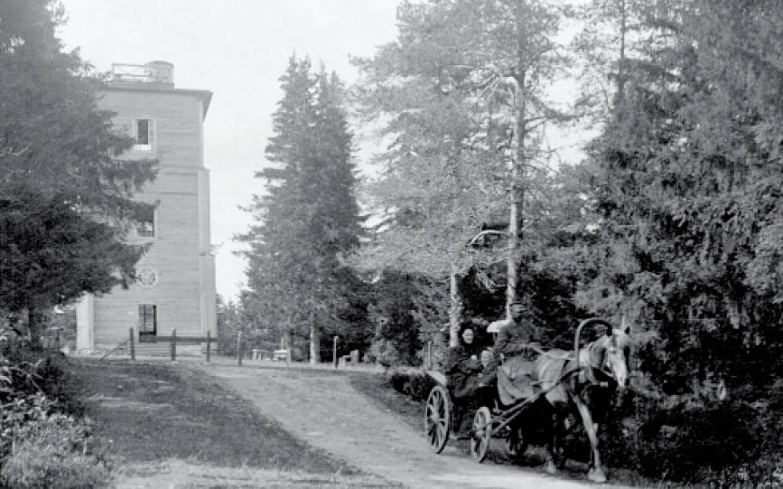 Puijo tower year 1900.